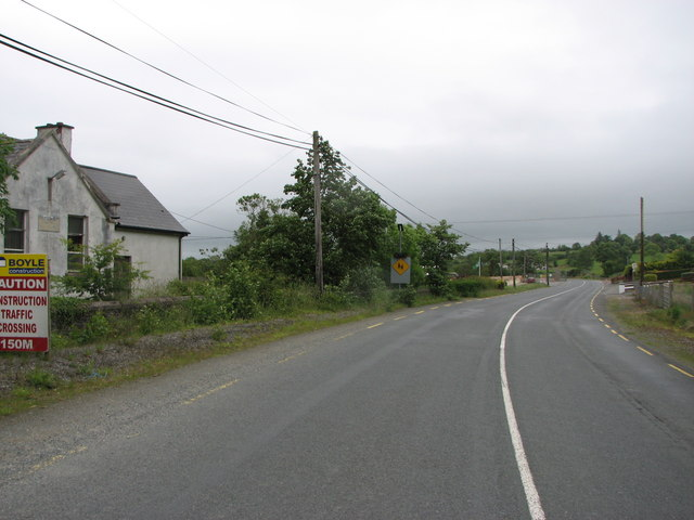 View along the R252 Dooish This view shows the old school in Dooish with its replacement a few hundred metres further along the road.